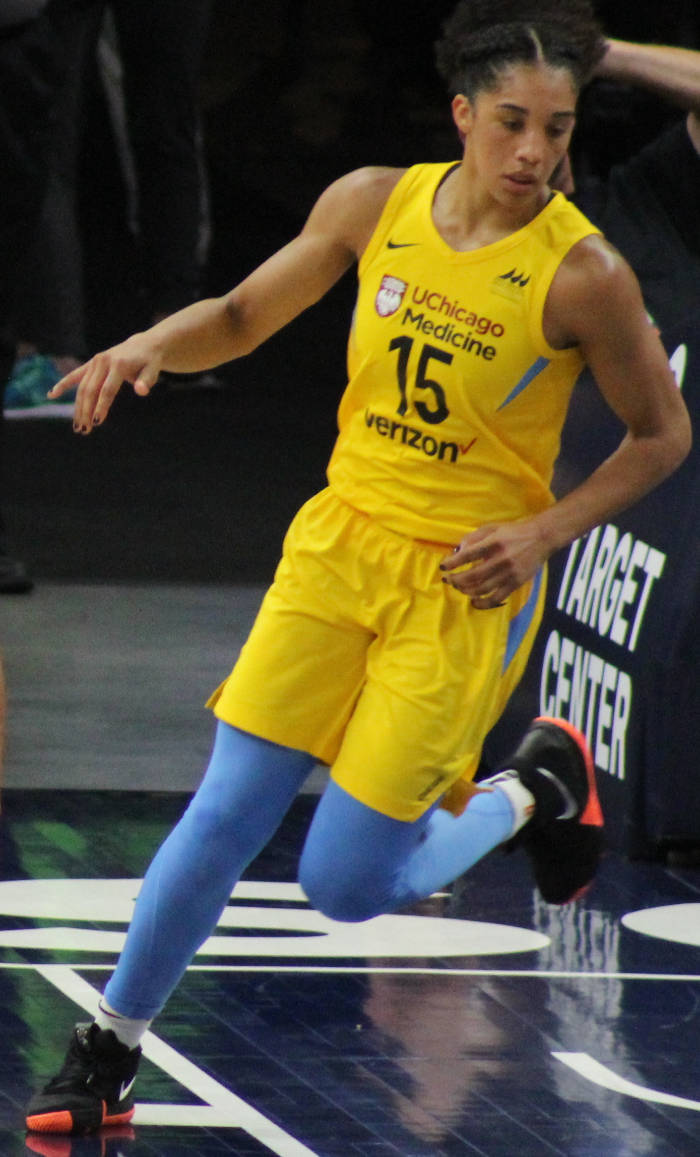 Gabby Williams of the Chicago Sky